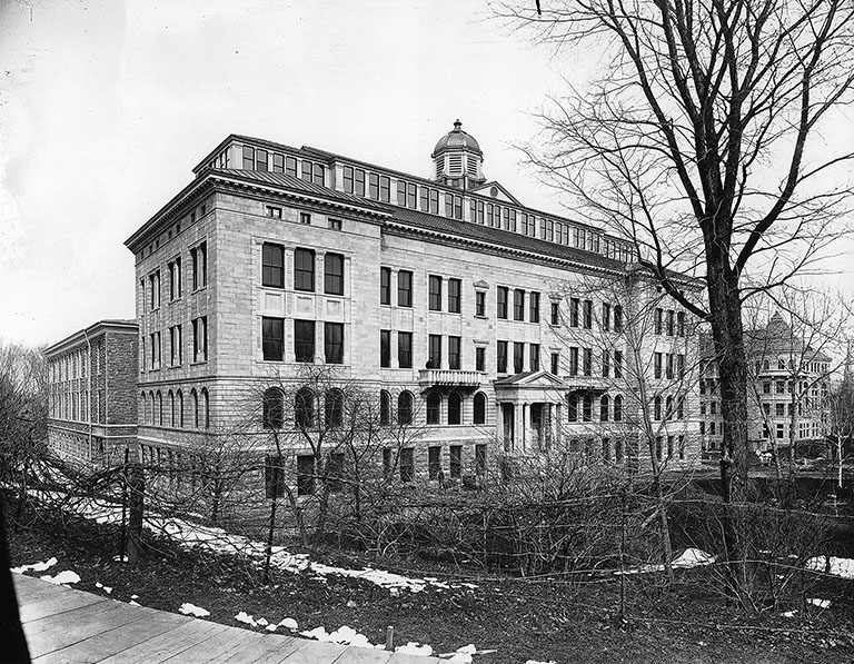 Photograph, McDonald Engineering Building, McGill University, Montreal, QC, about 1895, Wm. Notman & Son, Silver salts on glass - Gelatin dry plate process - 20 x 25 cm « After the original Macdonald Engineering Building was gutted by fire in 1907, the current building was constructed with function and safety taking precedence over design. » – mcgill.ca